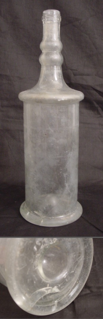 Creative commons licensed image for use in glass disease.